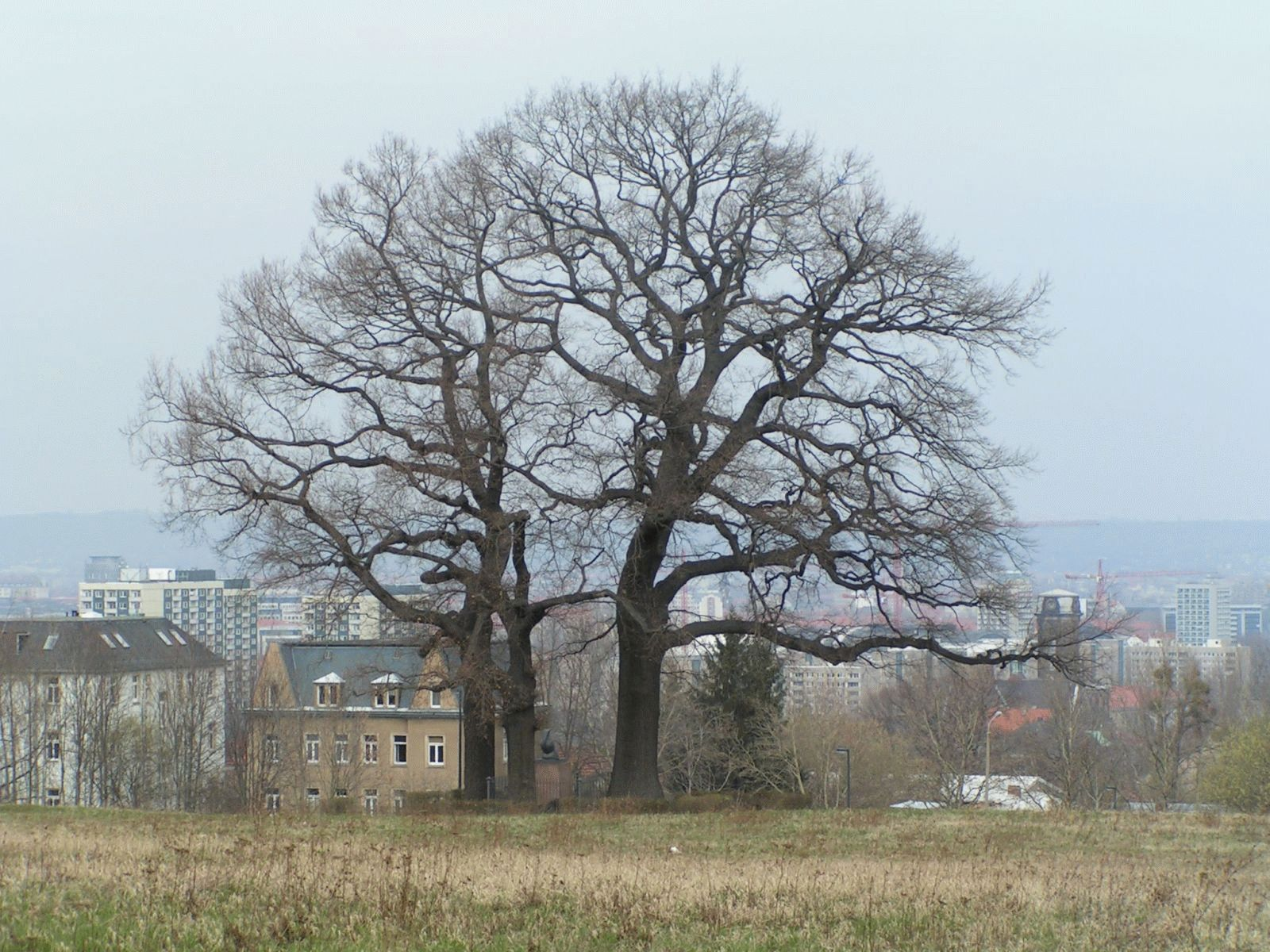 Memorial for Jean-Victor Moreau in Dresden